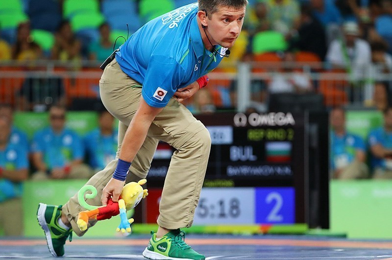 RIO DE JANEIRO (Tasnim) – Iranian Greco-Roman wrestler Habibollah Akhlaghi experienced a bitter defeat vs. Germany’s Denis Maksymilian Kudla on Monday and was eliminated from the Rio 2016 Olympic Games in Rio de Janeiro. Men's Greco-Roman 85 kg.